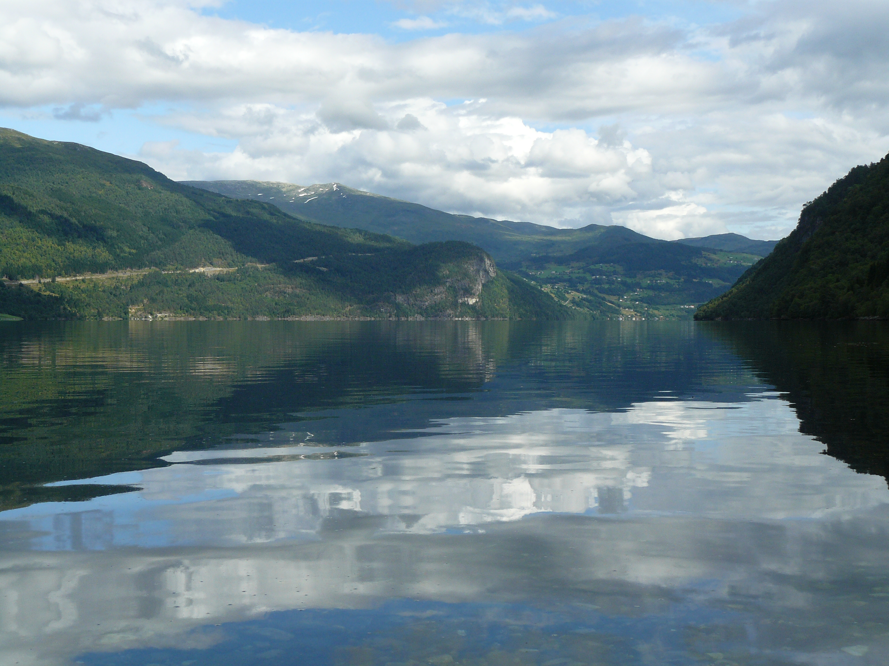 Utfjorden (Nordfjord, Norway) seen from west towards Randabygda in Stryn